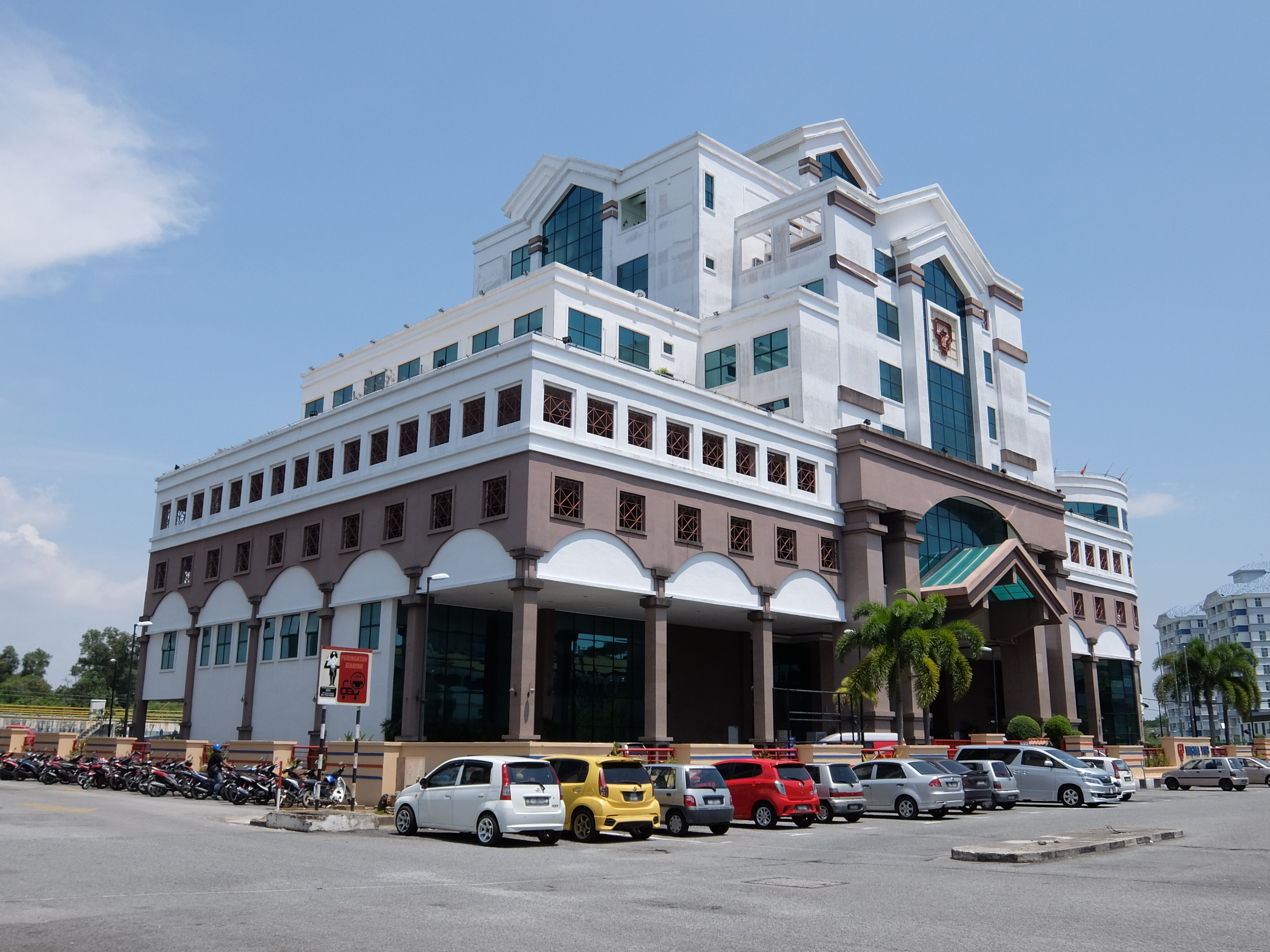 TNB Alor Setar, Alor Setar, Kota Setar, Kedah, Malaysia